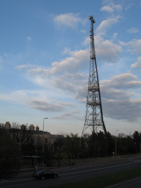 Mast at RTE Television Studios.